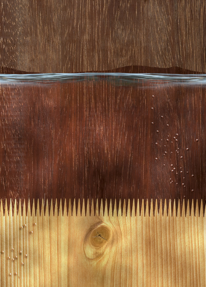 TwinWood compound product, composed of ekki and a softwood joined by finger-jointing, the joint being kept submerged